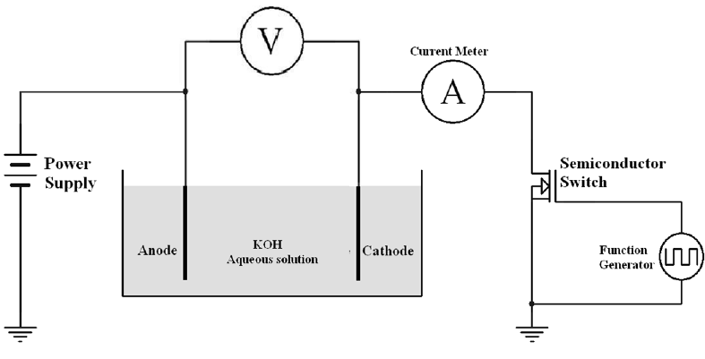 An experimental electrolysis cell attached to a function generator so the voltage, waveform and frequency of the current can be changed and tested for different results.